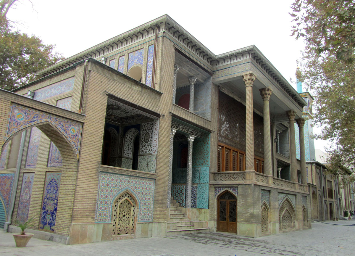 Emarate Badgir at Golestan palace garden, Tehran, Iran